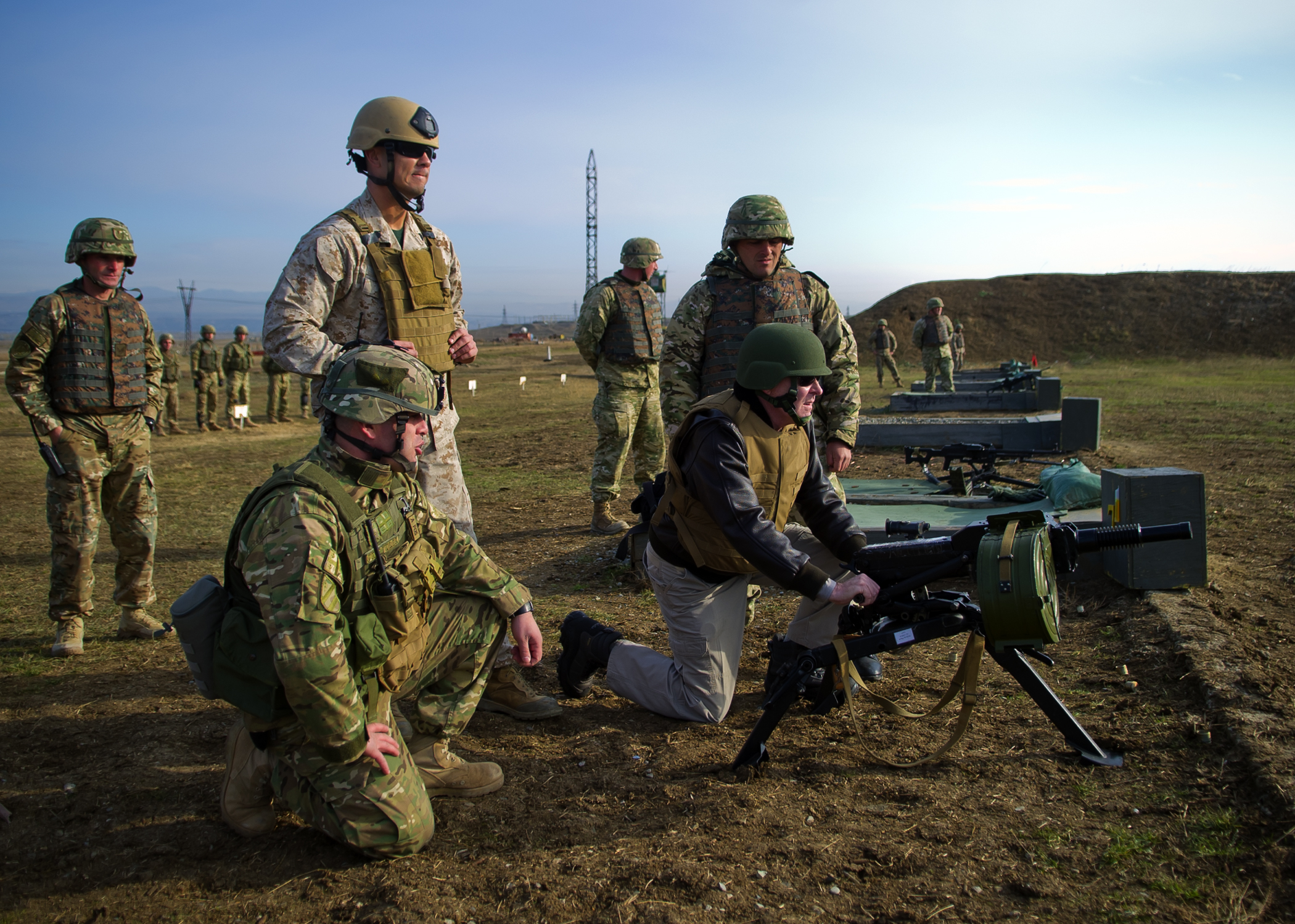 KKRTSANISI, Georgia (Nov.19, 2011) Secretary of the Navy (SECNAV) the Honorable Ray Mabus fires an AGS-17, Russian 30mm automatic grenade launcher at the Krtsanisi Training Area weapons firing range. Mabus visited the facility to thank the Sailors and Marines providing support to the Georgian military and meet with senior government and military officials to discuss global maritime partnerships and security matters. (U.S. Navy photo by Chief Mass Communication Specialist Sam Shavers/Released)